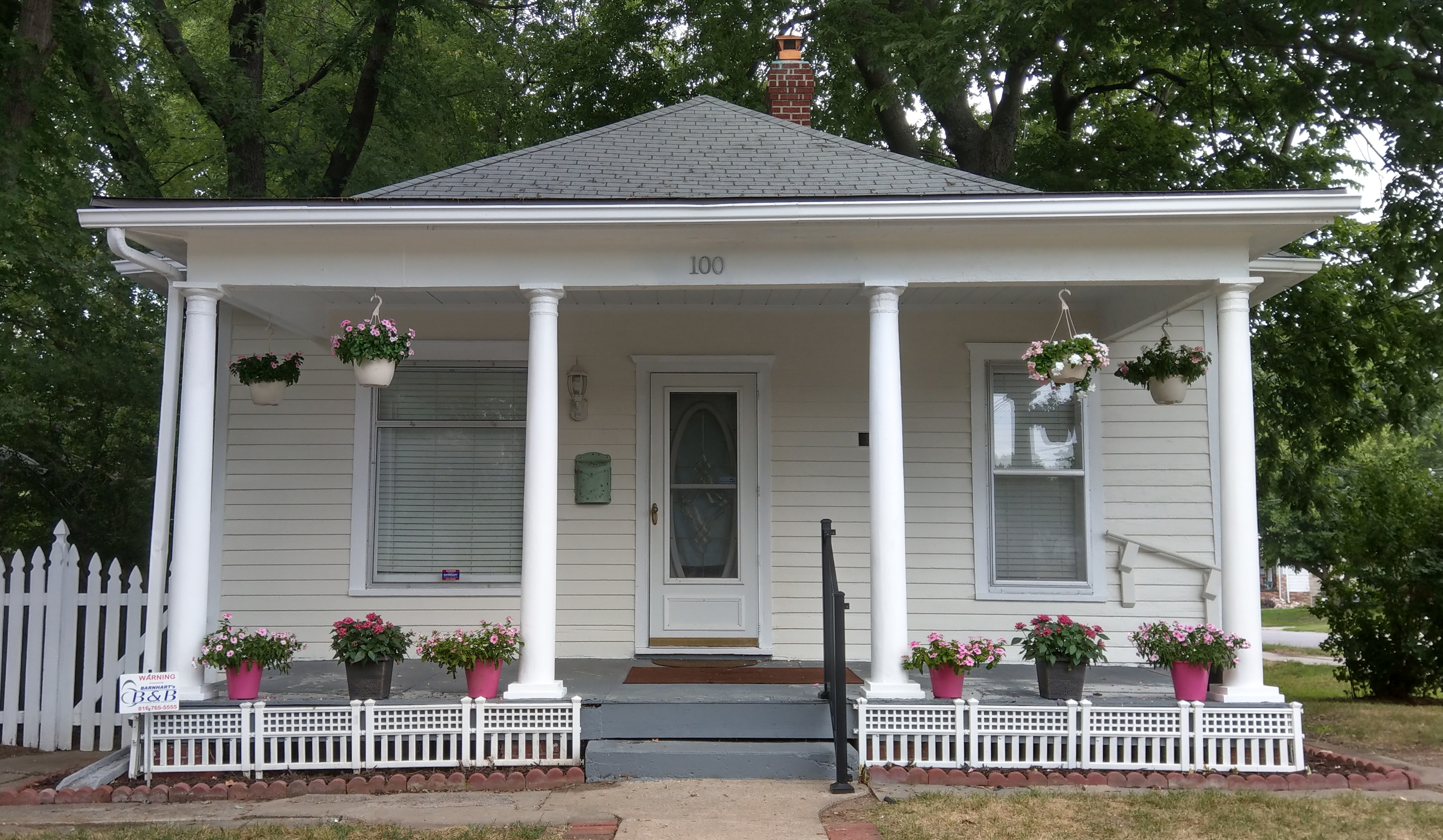 Front view of the Owens-Rogers Museum in Independence, Missouri